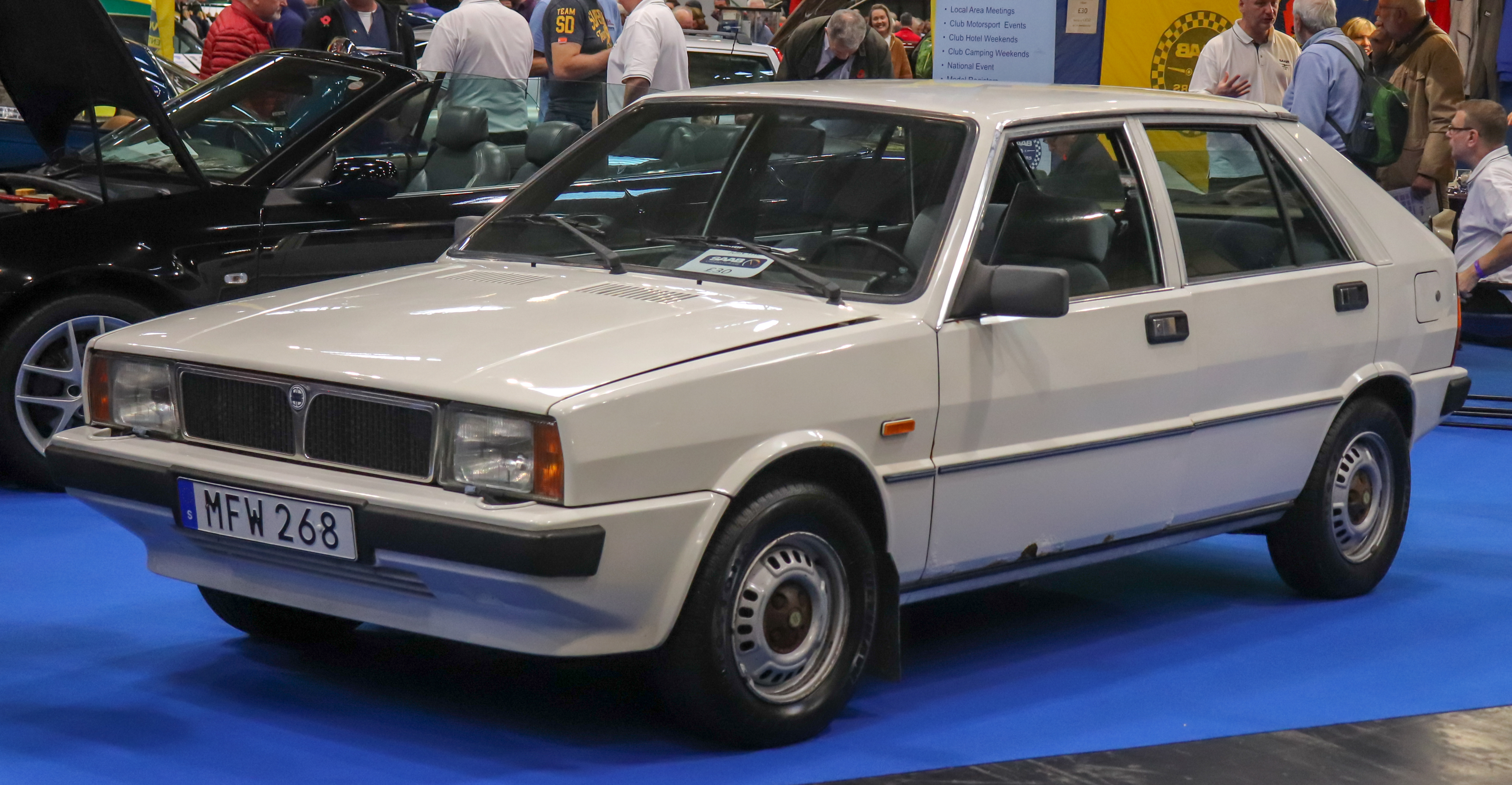 1986 Saab-Lancia 600 GLS Front Taken at the NEC Classic Motor Show 2018